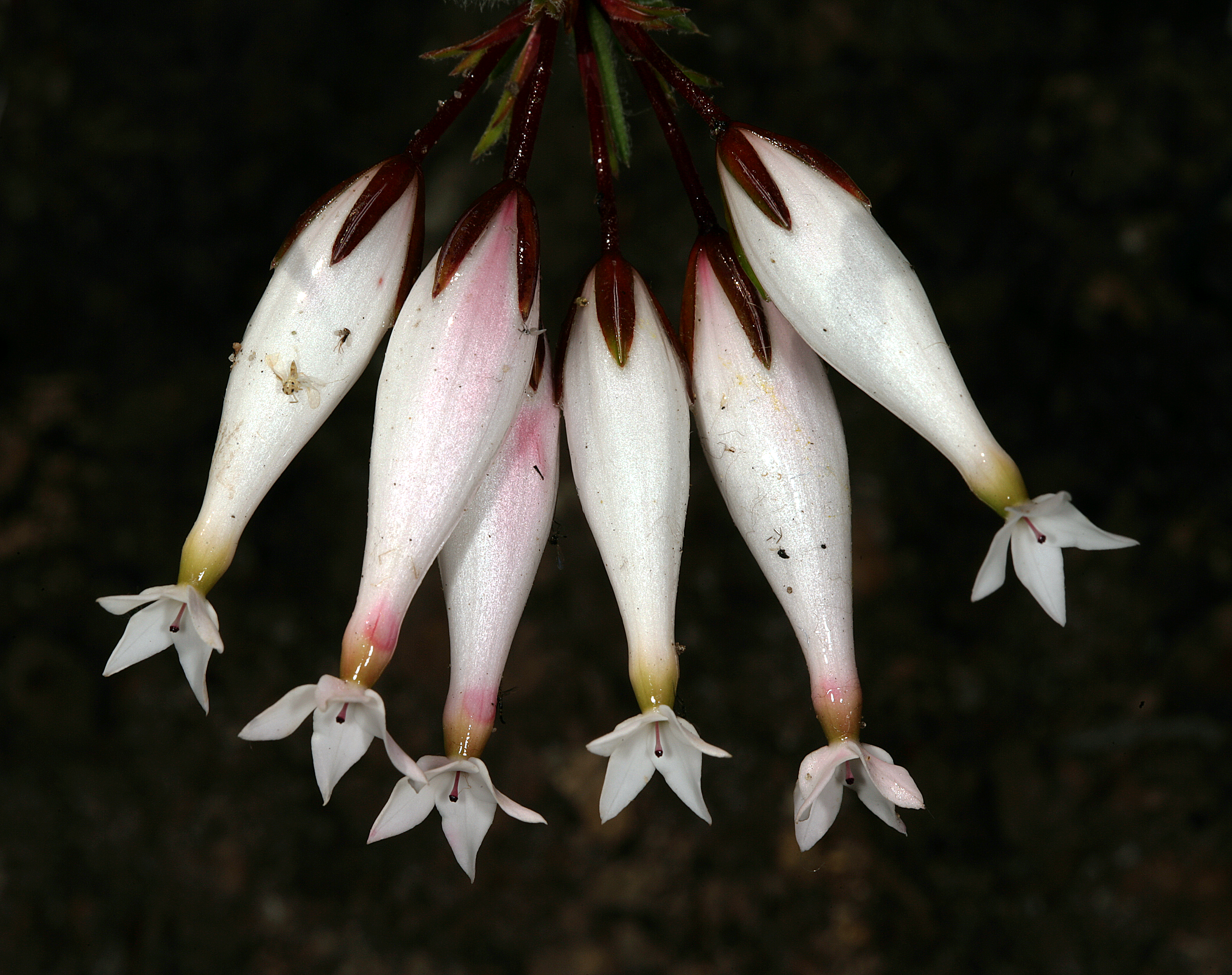 Erica shannonii, flowers; Kirstenbosch National Botanical Garden, Cape Town, Western Cape, South Africa